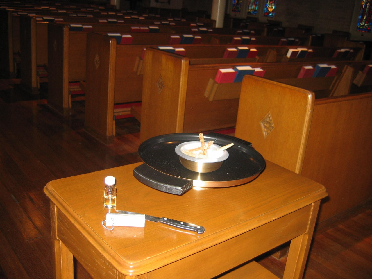 This is a photograph of a brazier from the Episcopal Cathedral Church of Saint Matthew, Dallas, Texas. The brazier is used at the Easter Vigil. The brazier is small - only slightly larger than a frying pan - and a small fire is made in the center of it. This fire is used to light the Paschal candle at the beginning of the service.